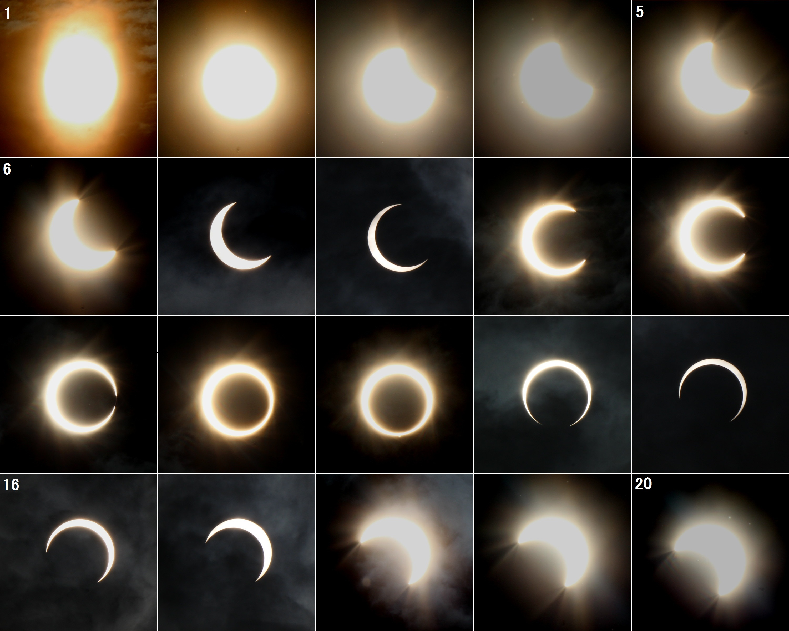 Solar eclipse of May 20, 2012 in Aichi Prefecture, Japan